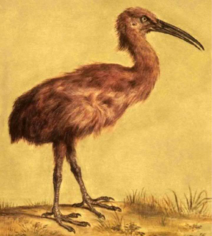 Chromolithograph from G.R. von Frauenfeld's Neu Aufgefundene Abbildung des Dronte (1868), copied from a painting attributed to George Hoefnagel (c.1600)